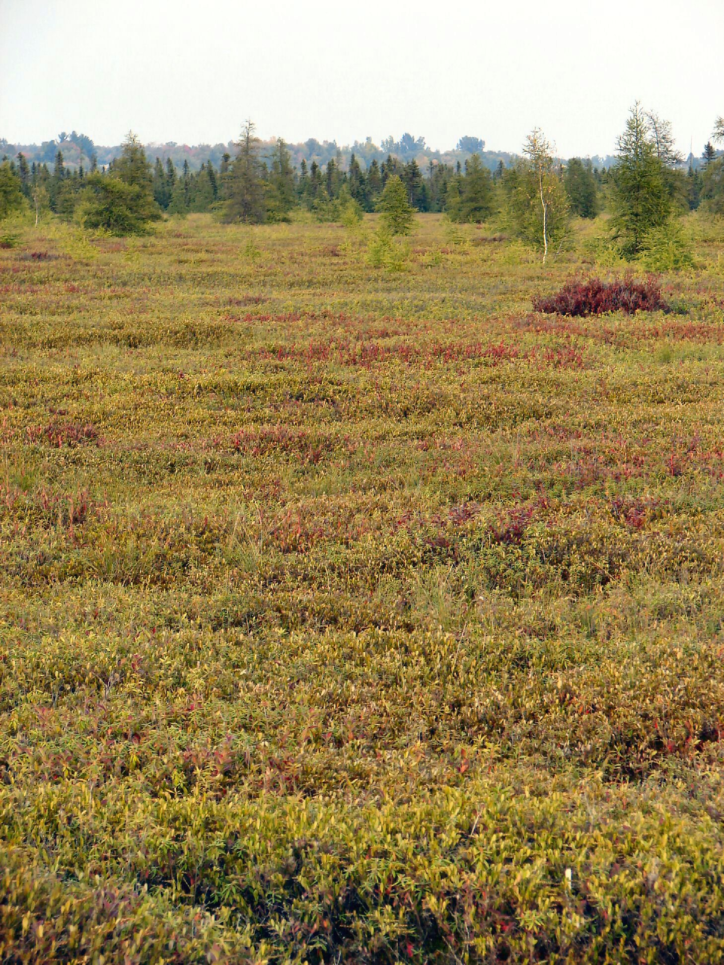 Mer Bleue Bog conservation area, Ottawa, Canada.